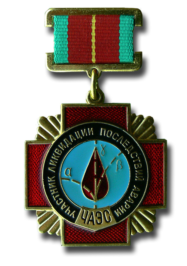 Medal "Liquidator of Chernobyl"